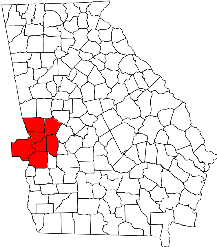 Columbus, Georgia metro Area